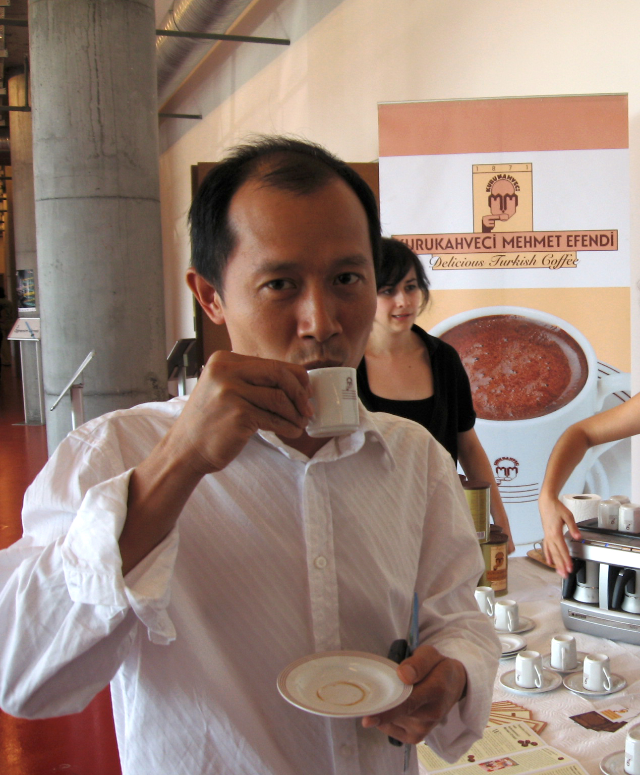 Curator and art critic Hou Hanru having Turkish coffee during the Istanbul Biennial.